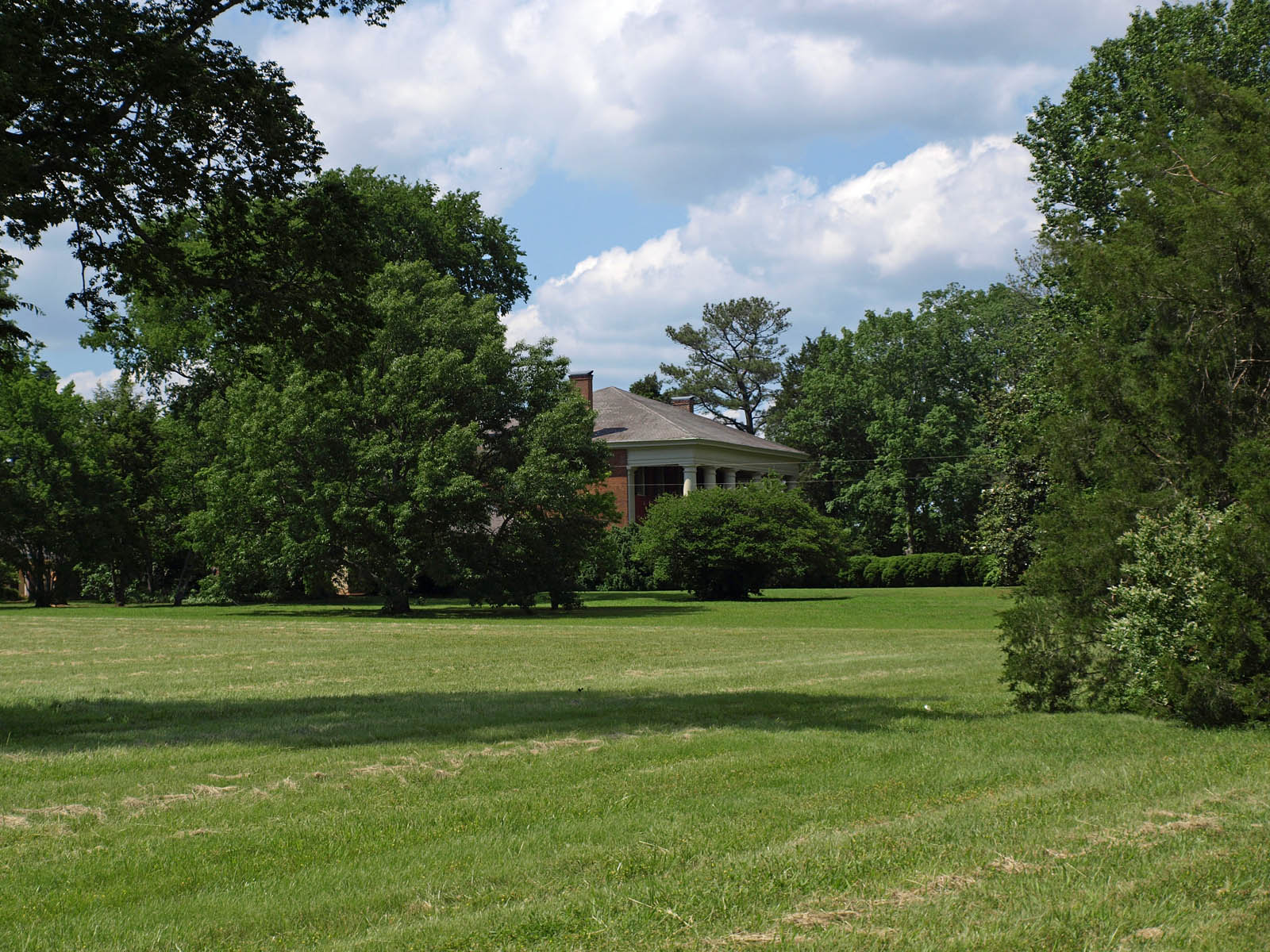 Belle Mina, also known as the Thomas Bibb House, in Limestone County, Alabama.